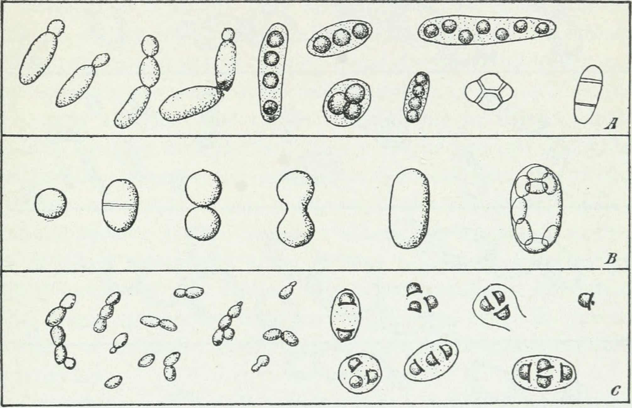 Title: Bacteriological methods in food and drug laboratories, with an introduction to micro-analytical methods Year: 1915 (1910s) Authors: Schneider, Albert, 1863-1928 Subjects: Bacteriology; Food; Drug adulteration; Bacteriology Publisher: Philadelphia, P. Blakiston's Son & Co Text Appearing Before Image: FERMENTED FOODS AND DRINKS 215 at io° C. and are killed at a temperature above 350 C. The so-called mother of vinegar consists of an agglutinated mass of Mycoderma aceti and is used as a starter in the manufacture of vinegar. Thus far it has not been possible to isolate the vinegar ferment or enzyme from the living cells which form it. There are also acids of nonalcoholic origin formed by living ferments, such as oxalic acid, malic acid, citric acid and others, Text Appearing After Image: Fig. 72.—Types of yeast organisms and yeast sporulation. A, Saccharomyces pasteurianus showing spore formation in fours and eights (after Bioletti); B, Schizosaccharomyces odosporus, showing simple septation instead of budding, and spore formation (after Schionning); C, Saccharomyces anomalus, vegetative cells and spore sacs.—(Marshall, after Kayser.) which appear to be derived from the direct fermentation of sugars. Citric acid is formed from sugars through the activity of two fungi, Citromyccs pfefferianus and C. glaber. Saccharo- myces hansenii forms oxalic acid from mannit and galactose, with- out the intermediary alcohol formation. The following are the more important products in which there is alcohol formation through the action of yeast organisms.